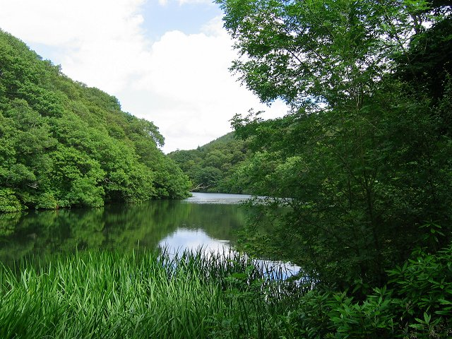 Pressmennan. Looking eastwards along the loch, deep in oakwoods.